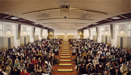 Aula a